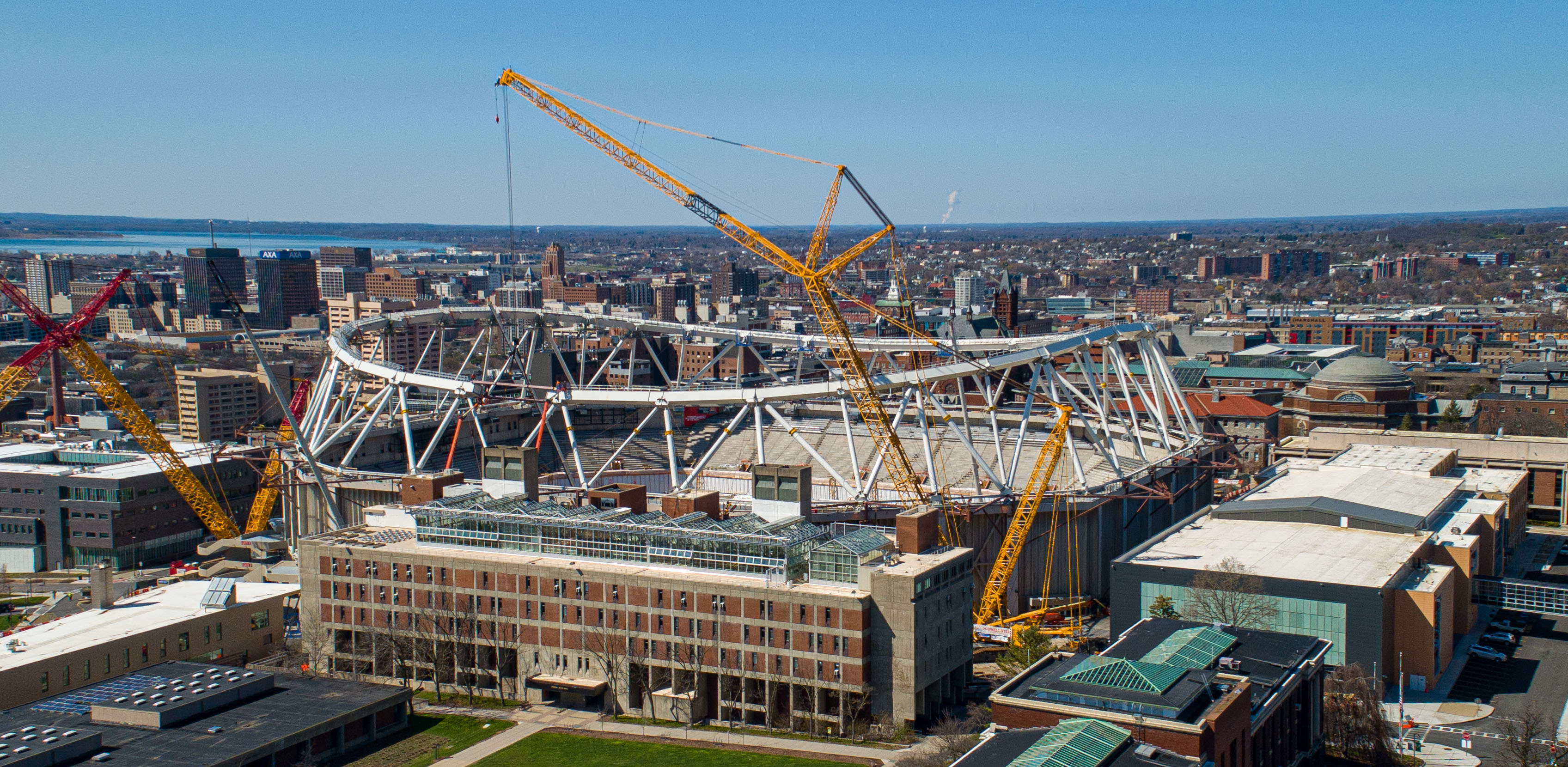 Work on Carrier Dome Roof